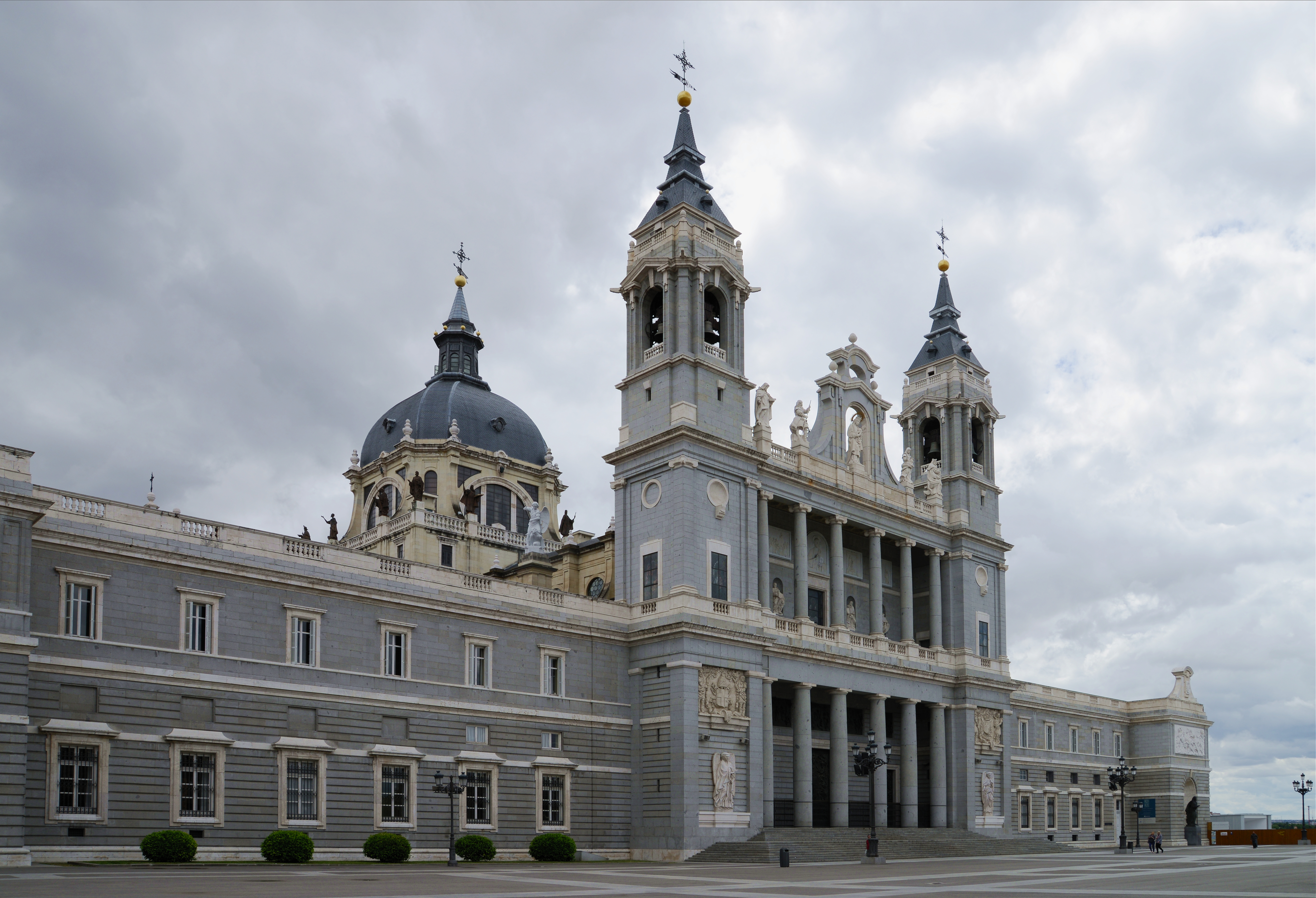 Cathedral of Almudena, Madrid